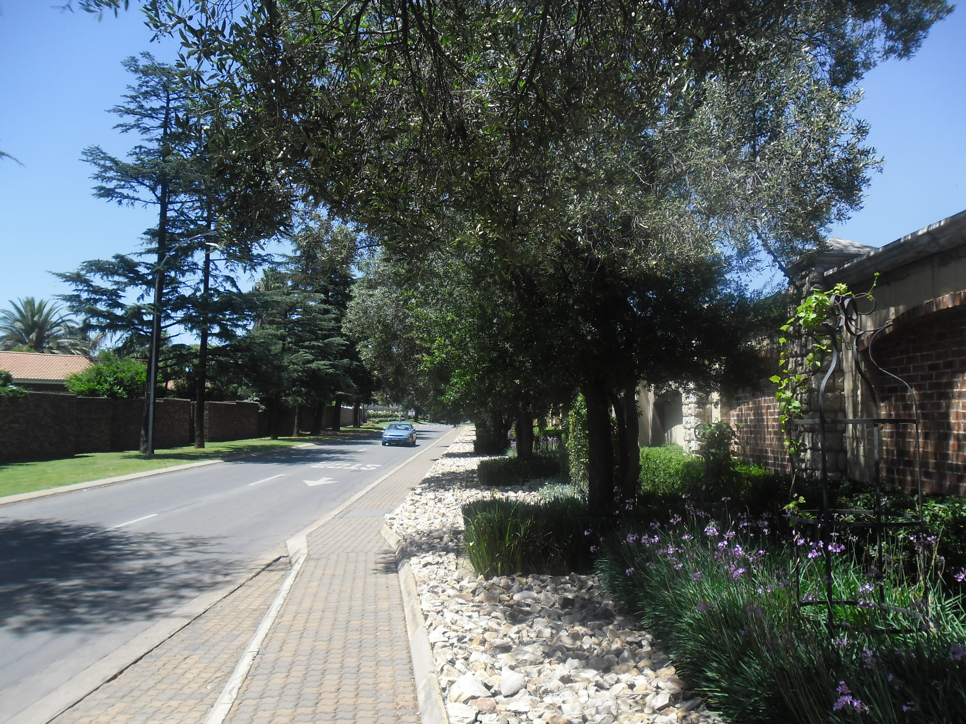 A street in Lakefield, Benoni (Ekurhuleni Metropolitan Municipality) in South Africa